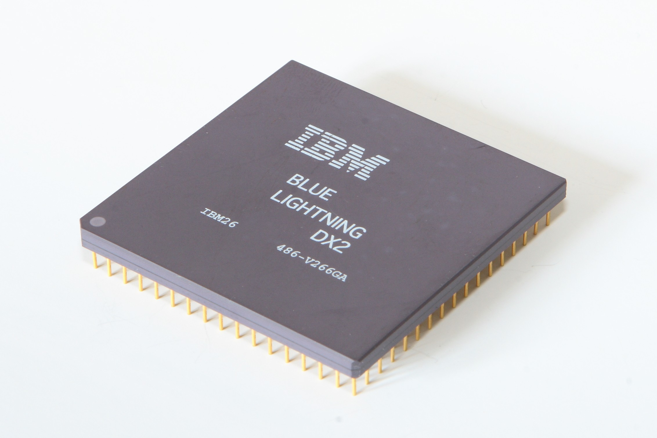 IBM BLUE LIGHTNING 486 DX2 CPU Camera data Camera Canon EOS 30D Lens Canon EF 24-70 mm 2.8 L USM Focal length 70 mm Aperture f/19 Exposure time 15 s Sensivity ISO 100 Image Editing Programs Canon Digital Photo Professional